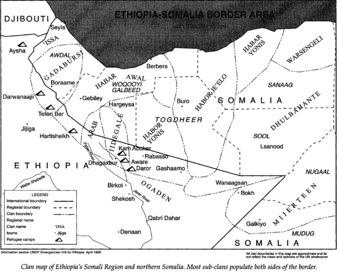 Somali clans in Somaliland